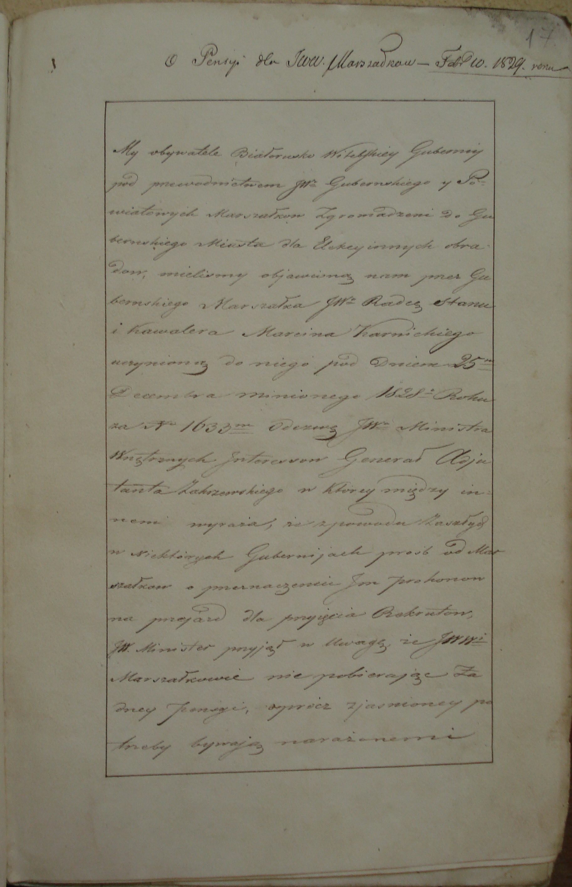 page from the journal of Vitebsk region nobility, 1829 AD